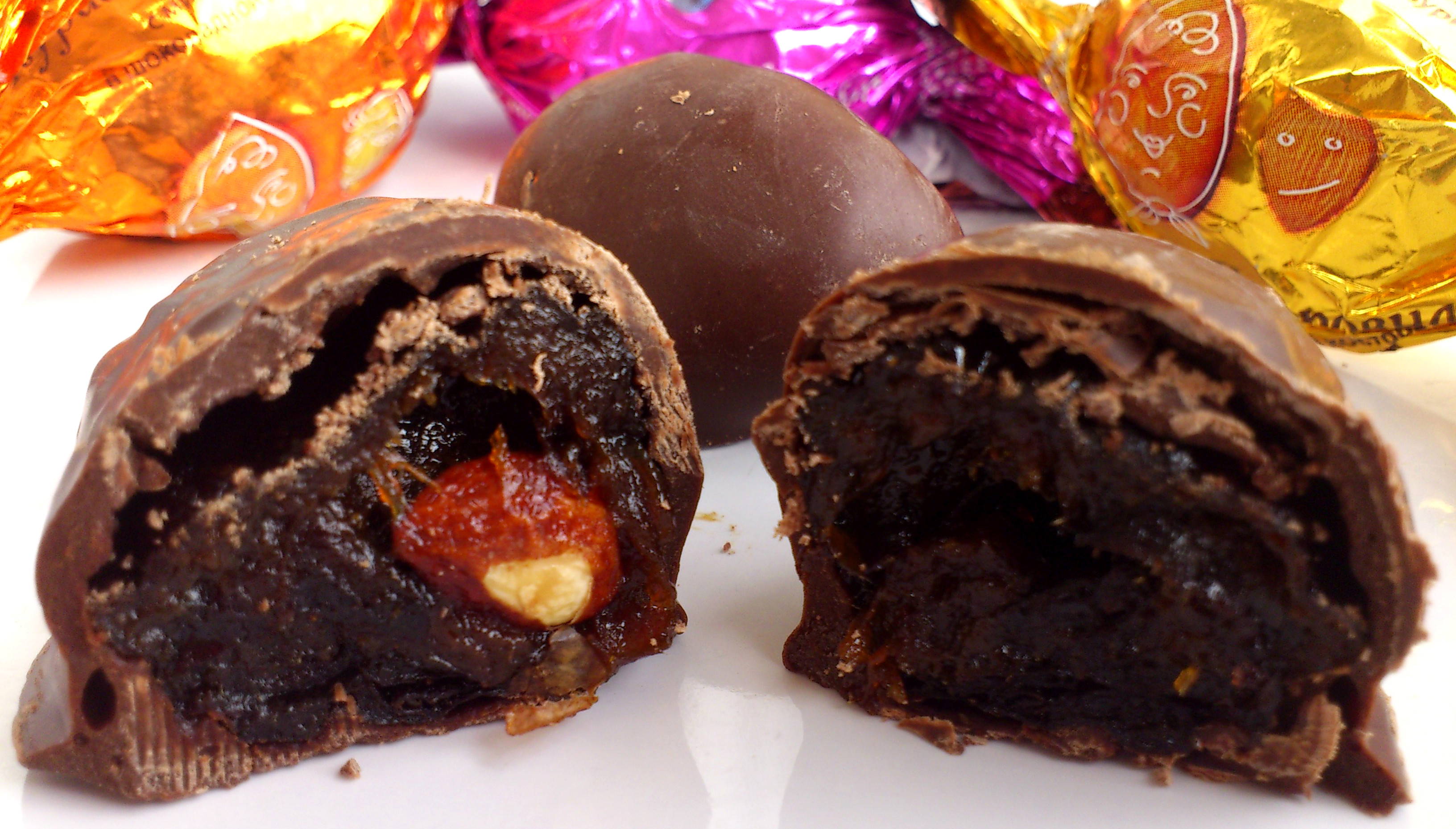 Chocolate-coated dried plums with an almond in the middle (Russian confectionery)